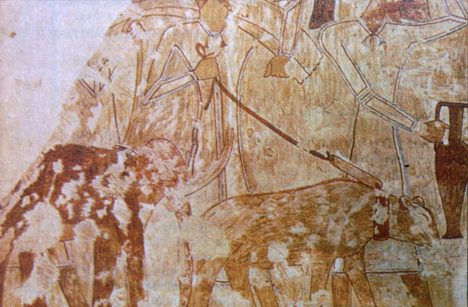 Detail of a painting in the tomb of Rekhmire in Egypt, believed by some to depict a "pygmy mammoth" (lower left) among other animals.